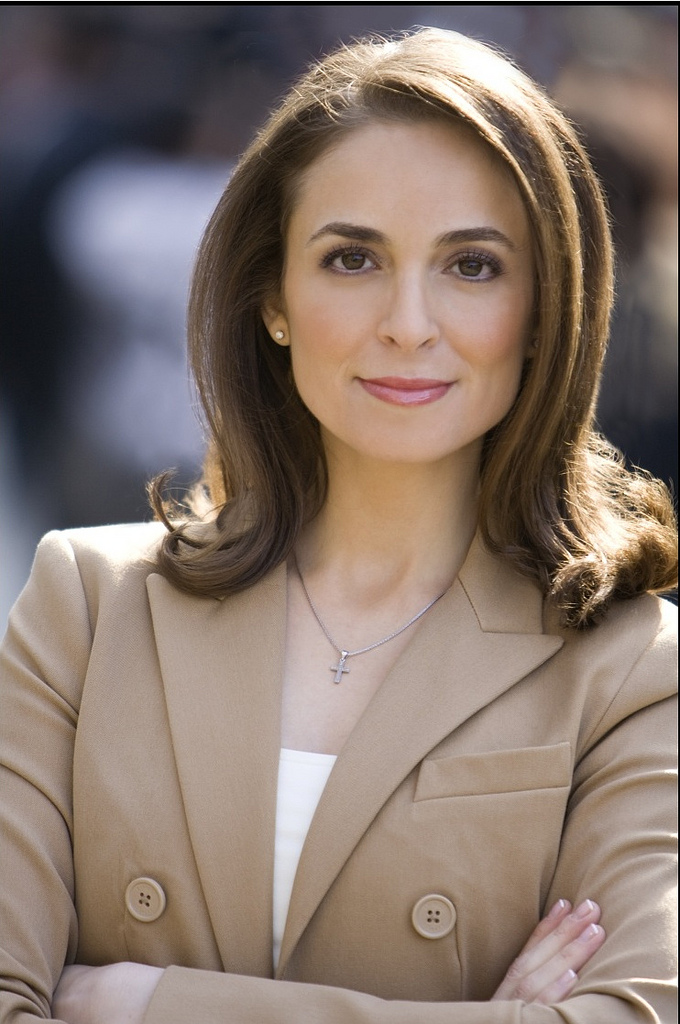 Jedediah Bila, author and political commentator